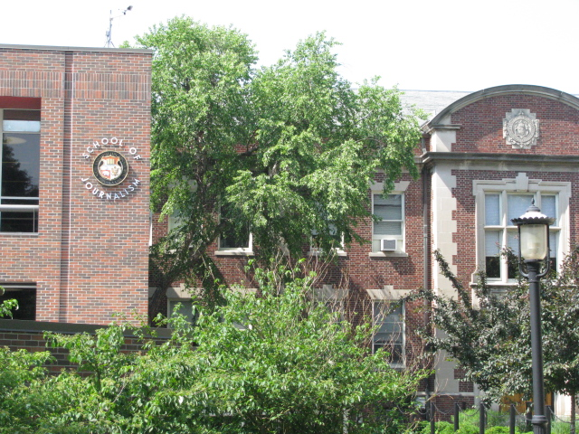 Missouri School of Journalism